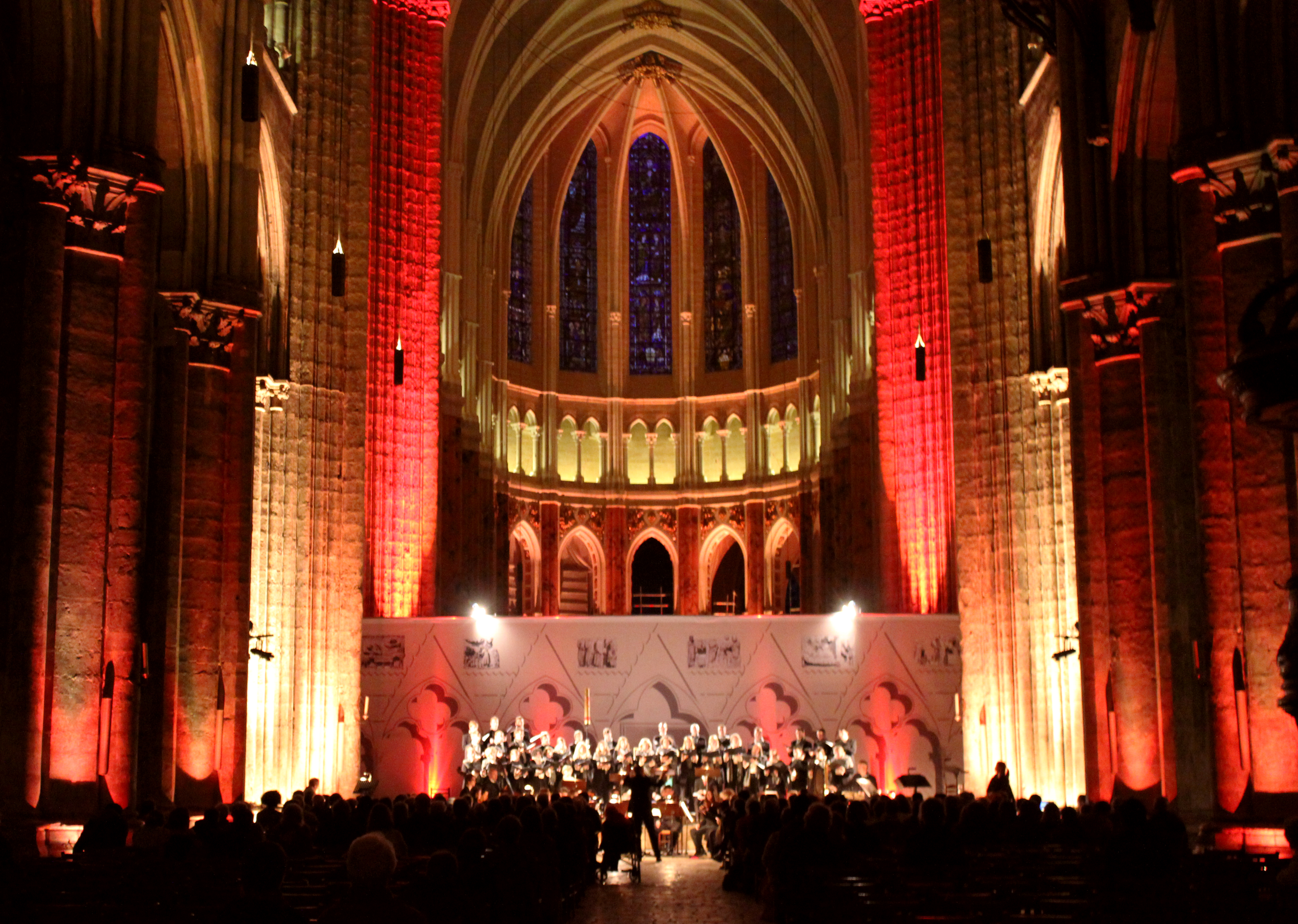 Concert of the red oratorio JEHOSCHUA (composer Helge Burggrabe) in the Cathedral of Chartres, 19th may 2012.